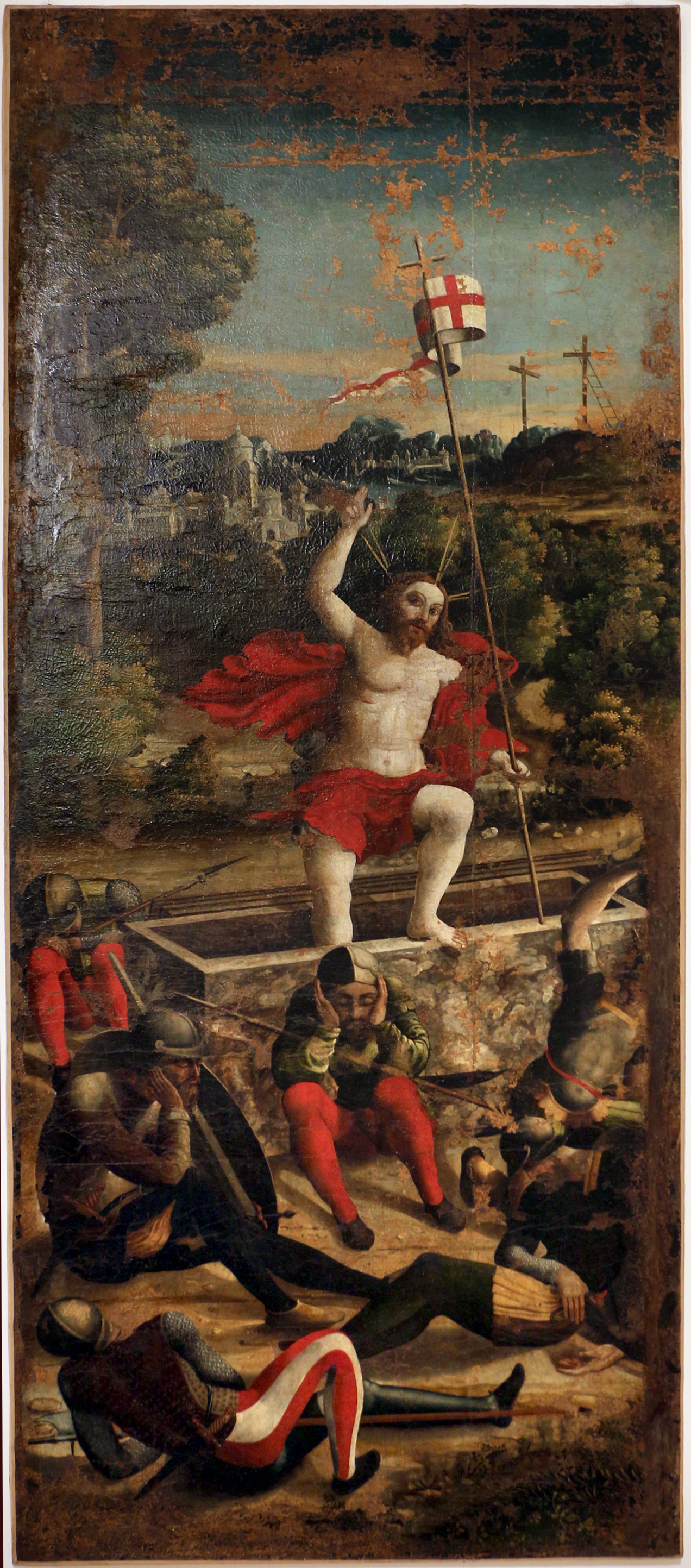 Massa Fermana Pinacotheque